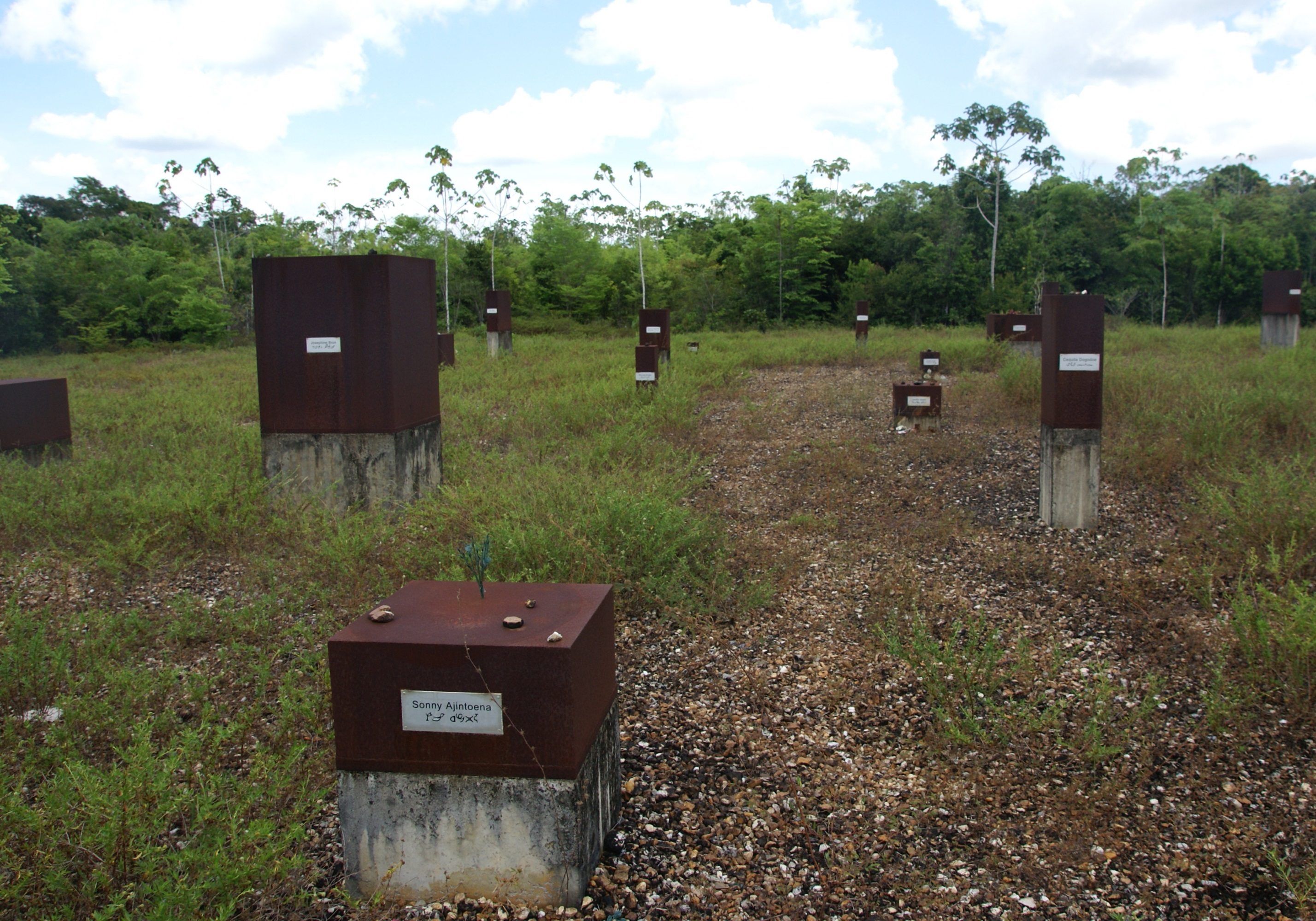 Moiwana Monument, Moiwana, Surinam. Small pillars remembering the victims.The names are written in Afaka syllabary.